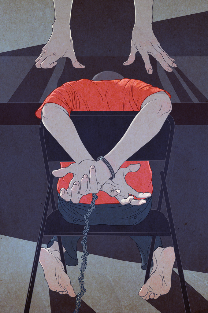 Richard Wilkinson original illustration for limited edition Little Brother (novel by Cory Doctorow) 04